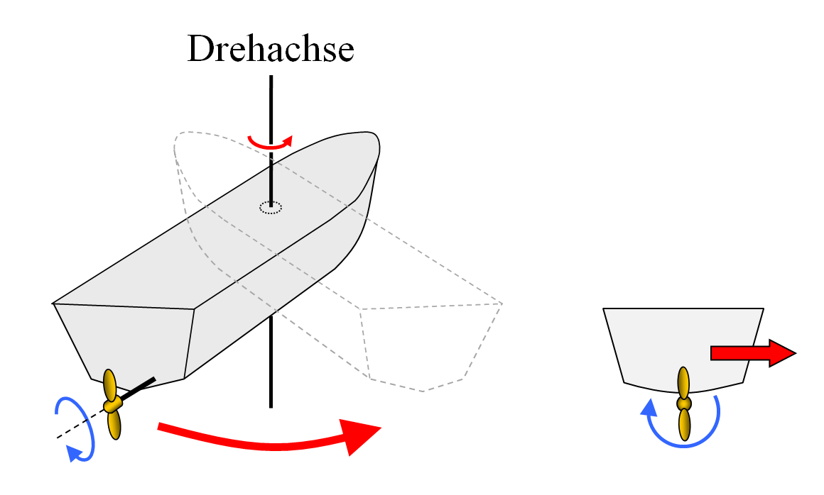 Effect of the propeller walk at a counter-clockwise propeller when driving astern